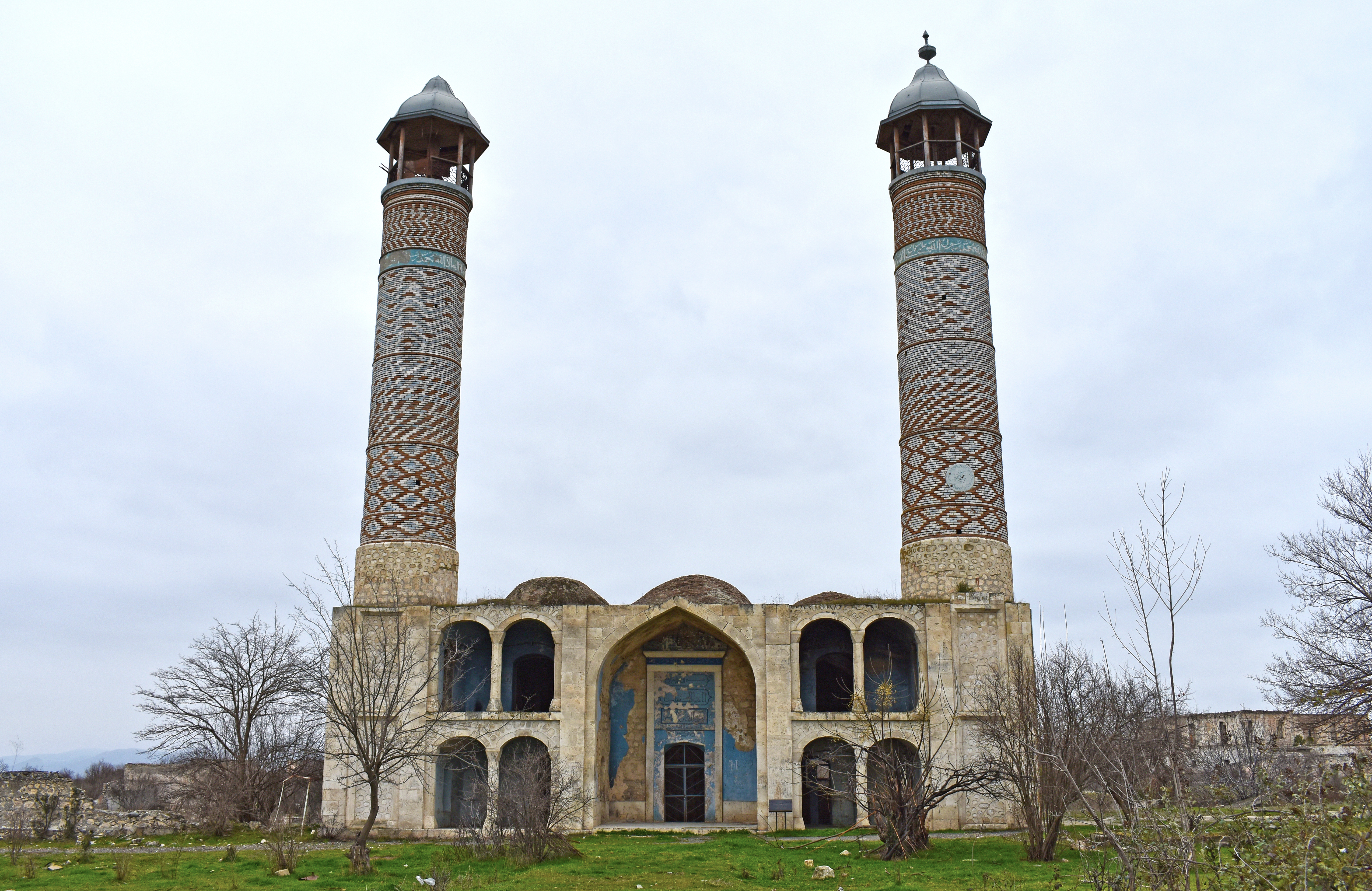 Agdam Mosque